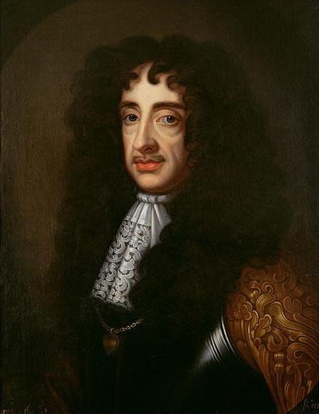 Portrait of Charles II, King of England, Scotland and Ireland